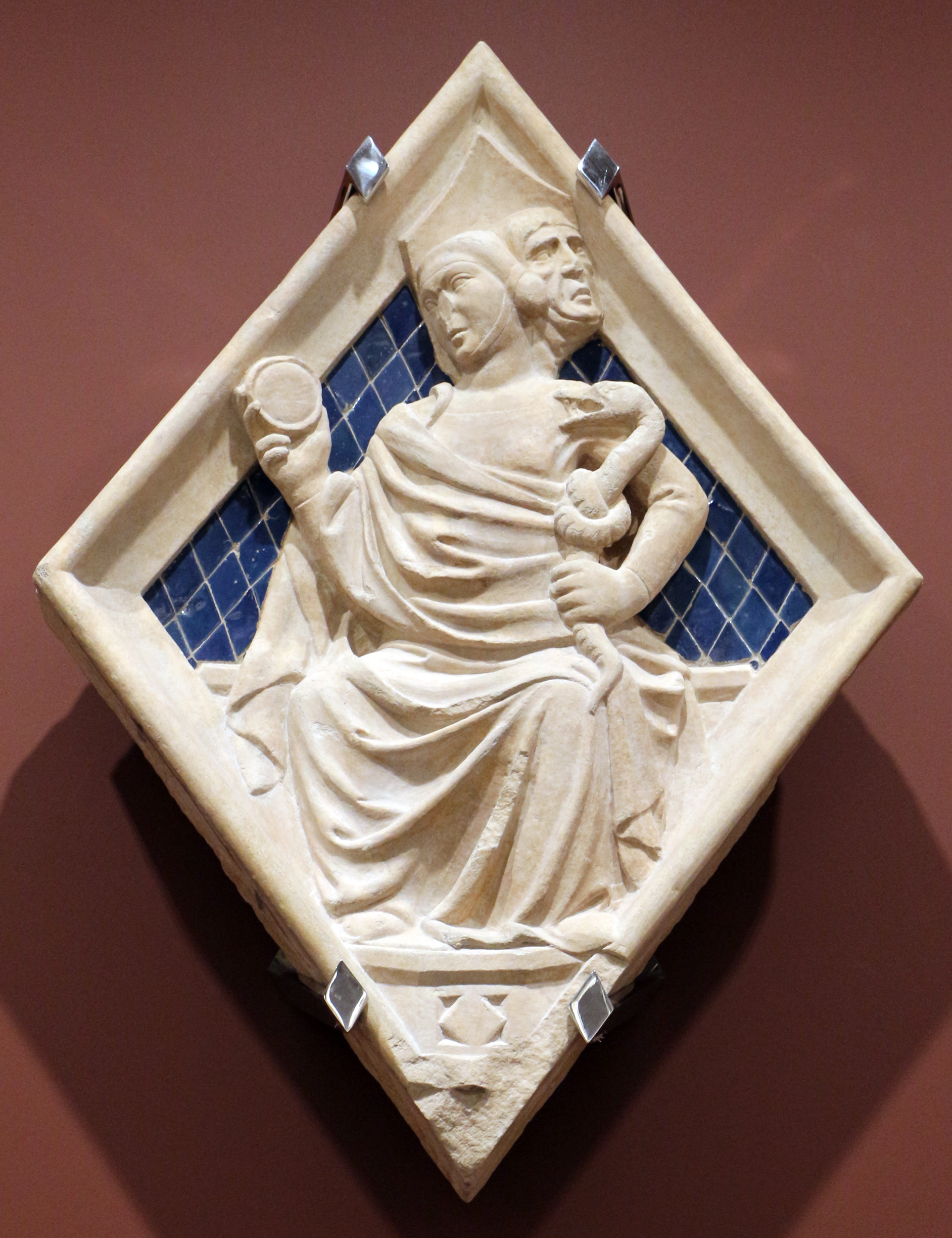 Reliefs of the Giotto's Belltower